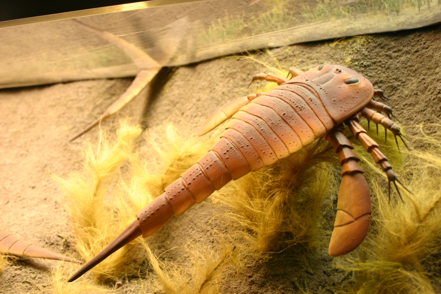 Eurypterus exhibited in Smithsonian National Museum of Natural History: Hall of Fossils